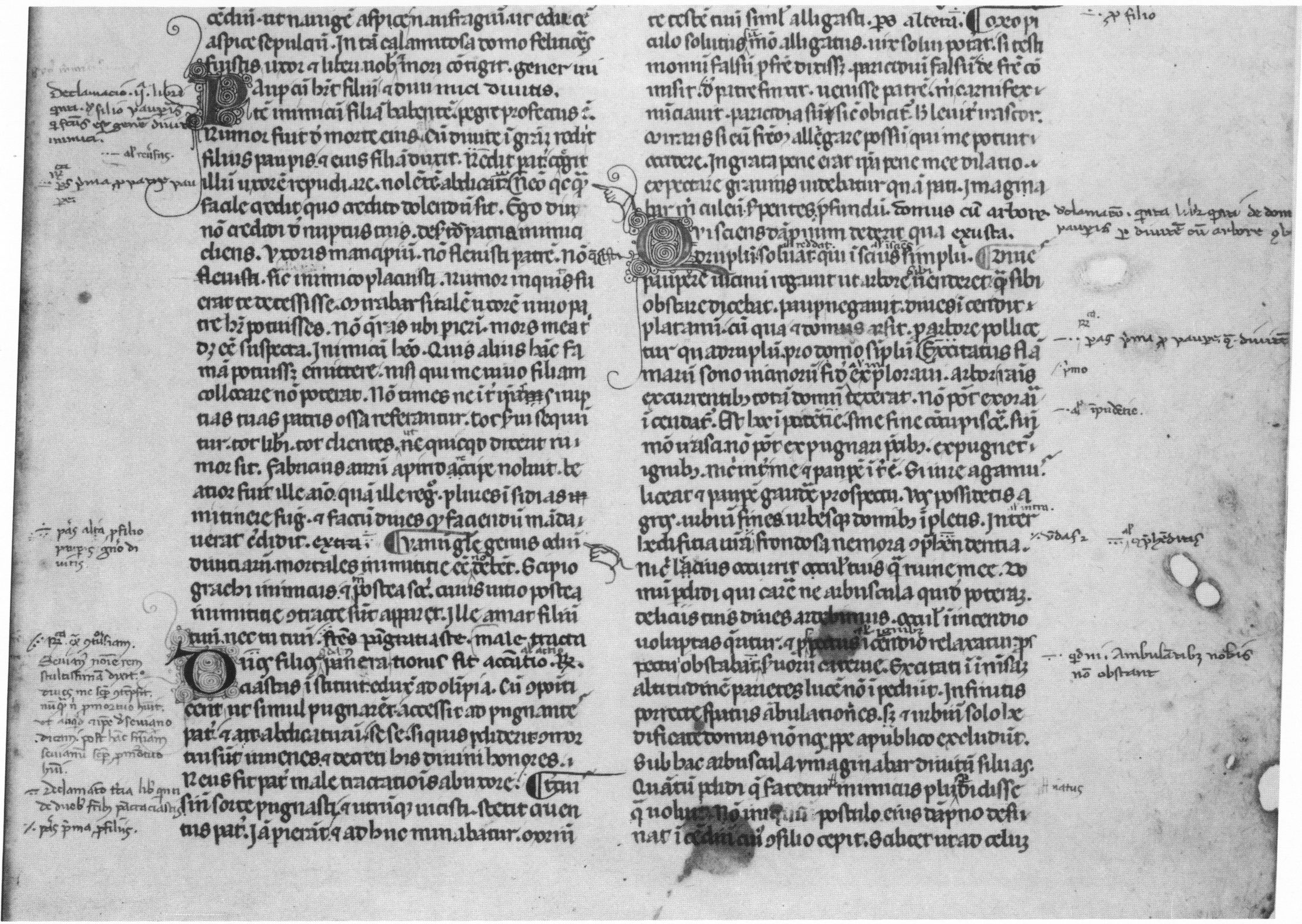 Seneca the Elder, Controversiae, with corrections and marginal notes by Albertino Mussato. Biblioteca Apostolica Vaticana, Vaticanus lat. 1769, fol. 73r.